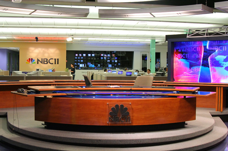 On Air News Anchor Desk at KNTV